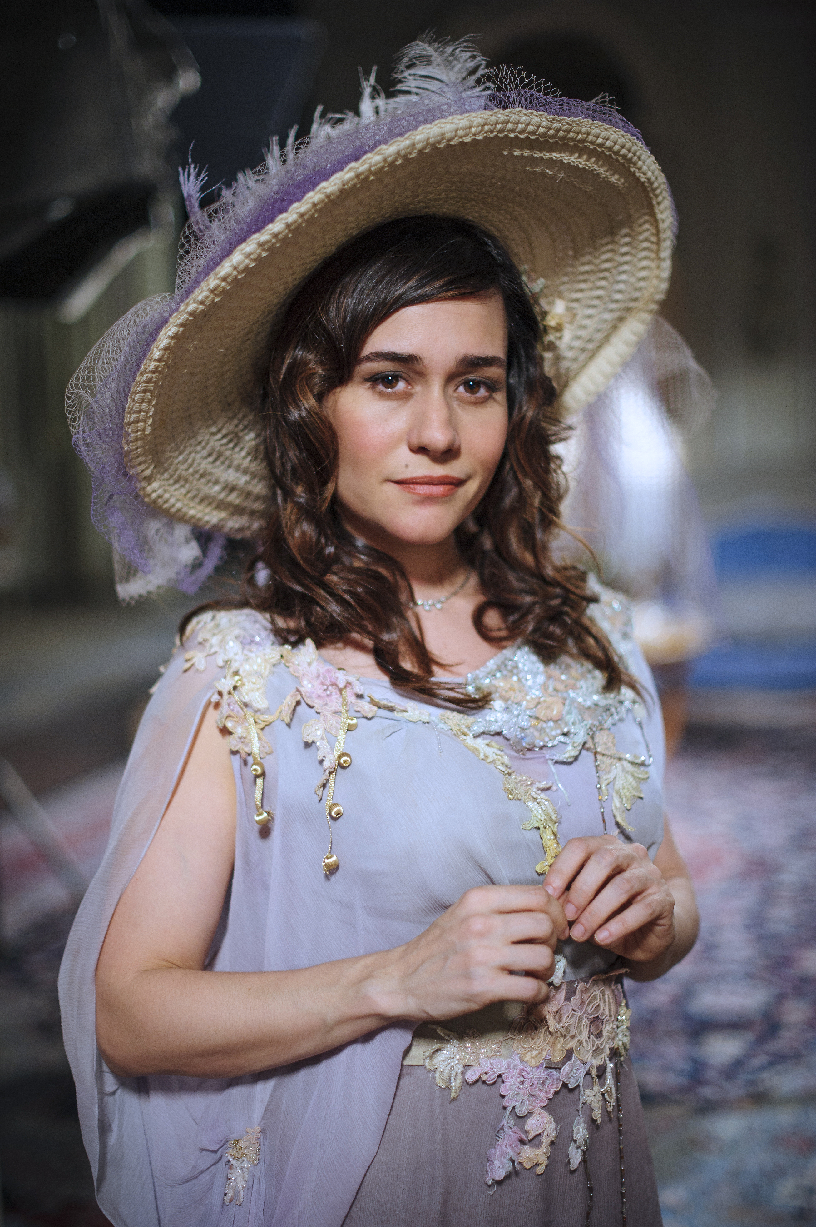 Atriz Alessandra Negrini